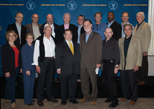 Directors Guild of America welcomes Jerry to Los Angeles